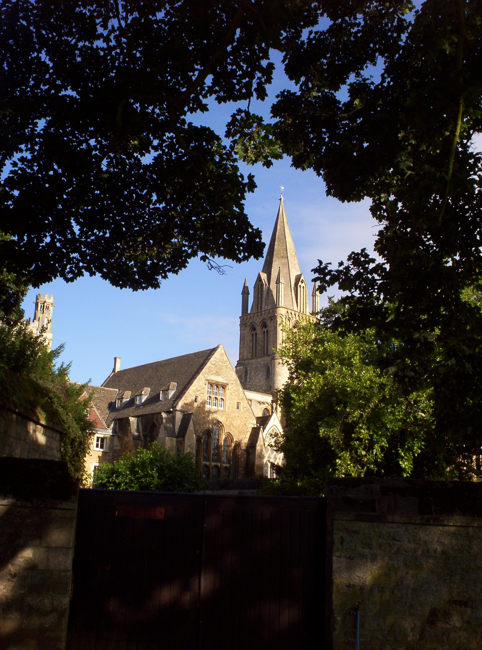 Christ Church Cathedral. Photo by me. Alf melmac 10:23, 2 October 2005 (UTC)